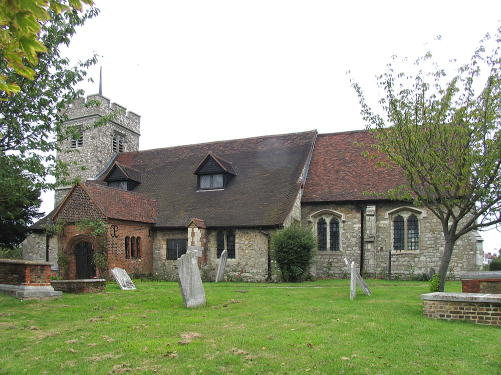 All Saints' parish church, Old Church Road, Chingford, London (formerly Essex), seen from the south